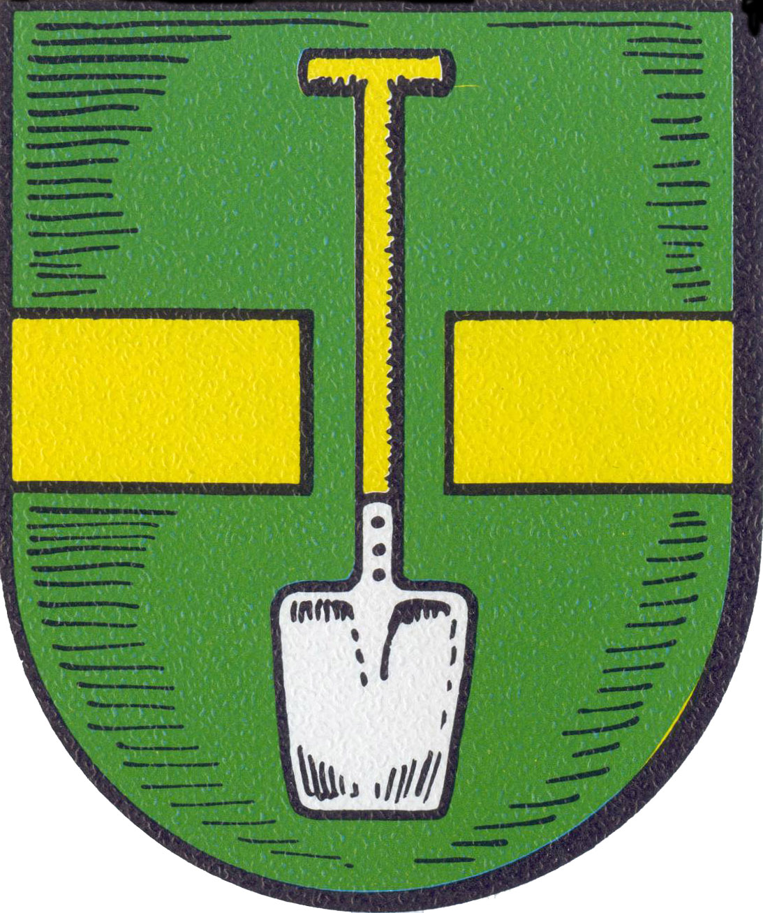 Coat of arms of Achterdeich.